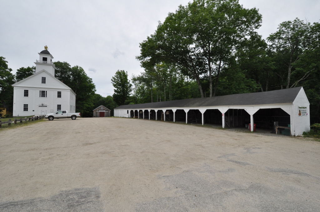 Francestown Town Hall and Academy and Town Common Historic District, Francestown, New Hampshire. The town hall/academy building and associated horse sheds.